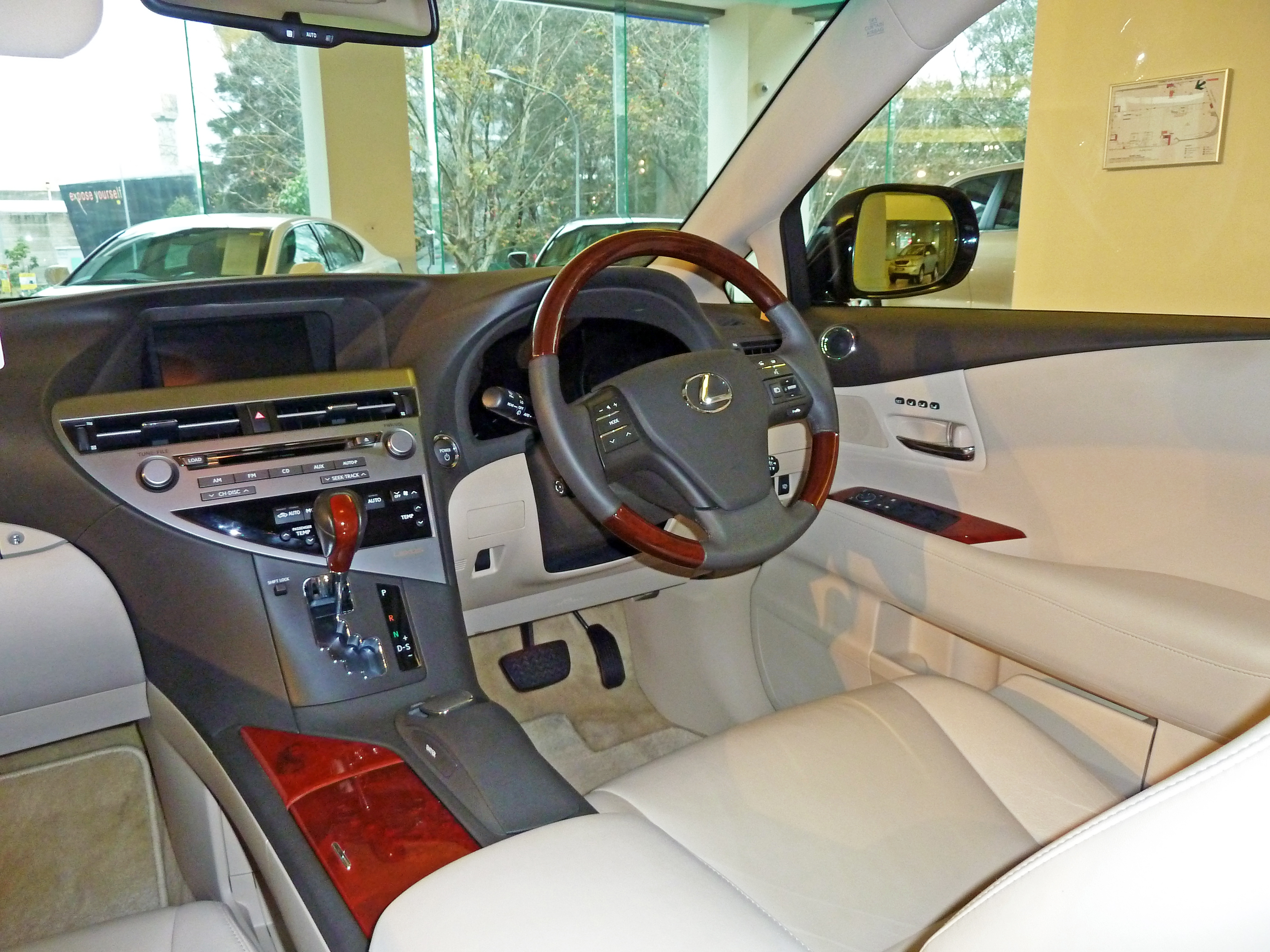 2008 Lexus RX 450h (GYL15R) Sports wagon. Photographed at Sydney City Lexus, Waterloo, New South Wales, Australia.